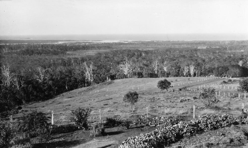 Panoramic views from Buderim to Mooloolaba Beach, 1934 Panoramic views from a lookout in Buderim to the shoreline of Mooloolaba and the Maroochy River.